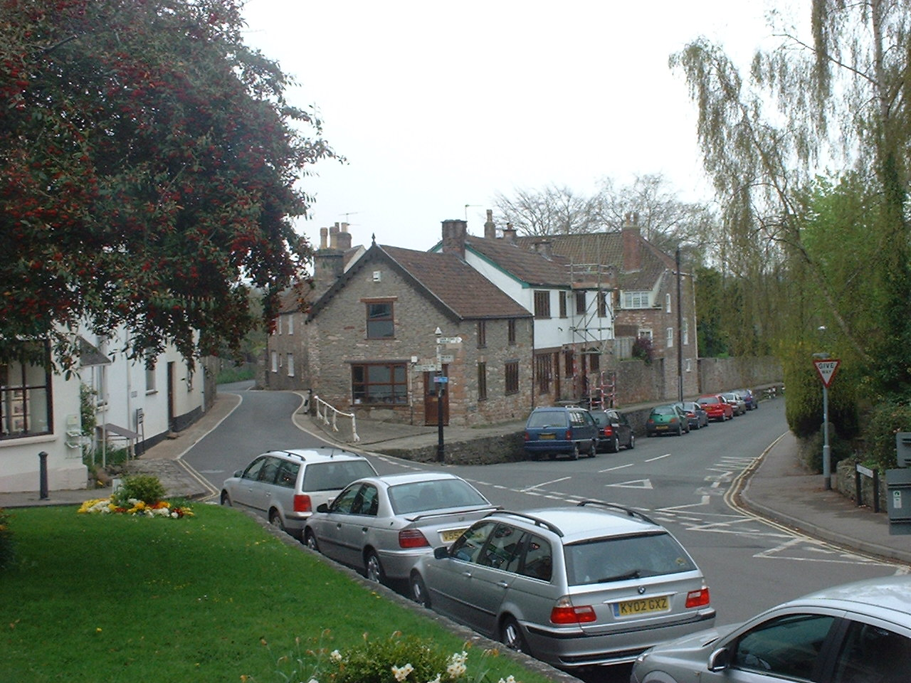 A street scene in Chew Magna, showing site of old toll house and raised pavements. Taken by Rod Ward 24th April 2006